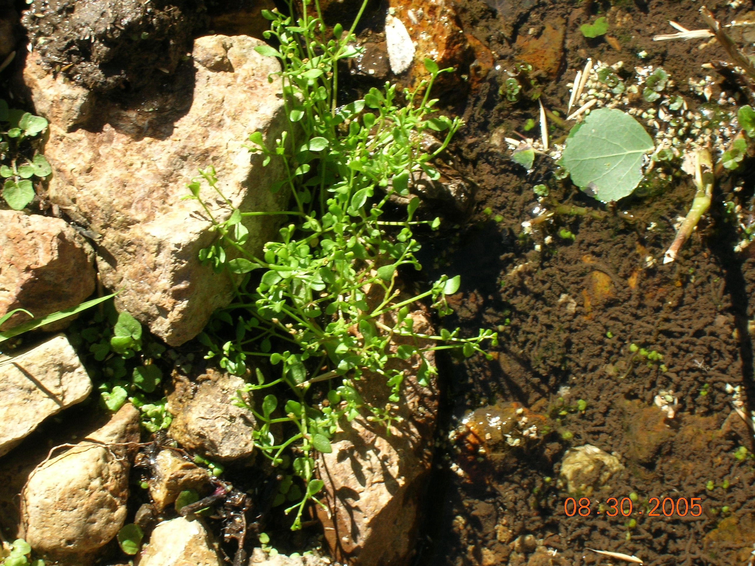 Montia fontana